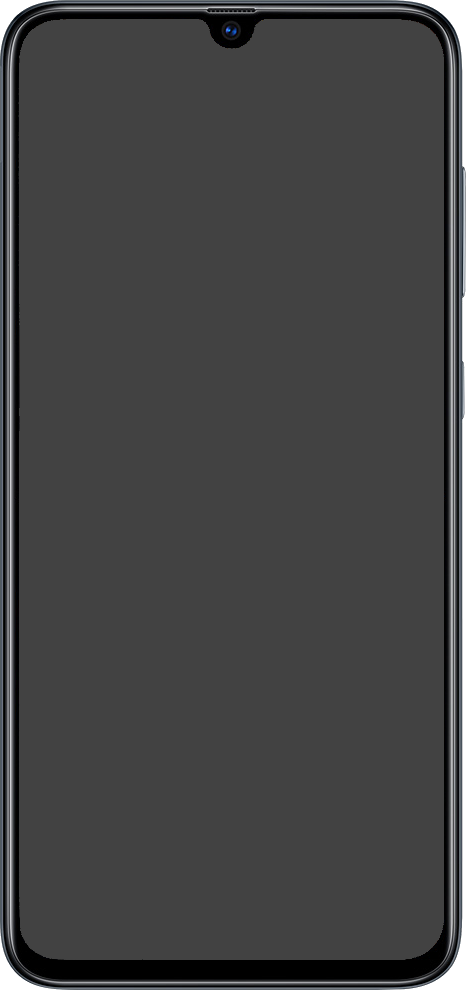 The vector like picture for introducing Galaxy A70